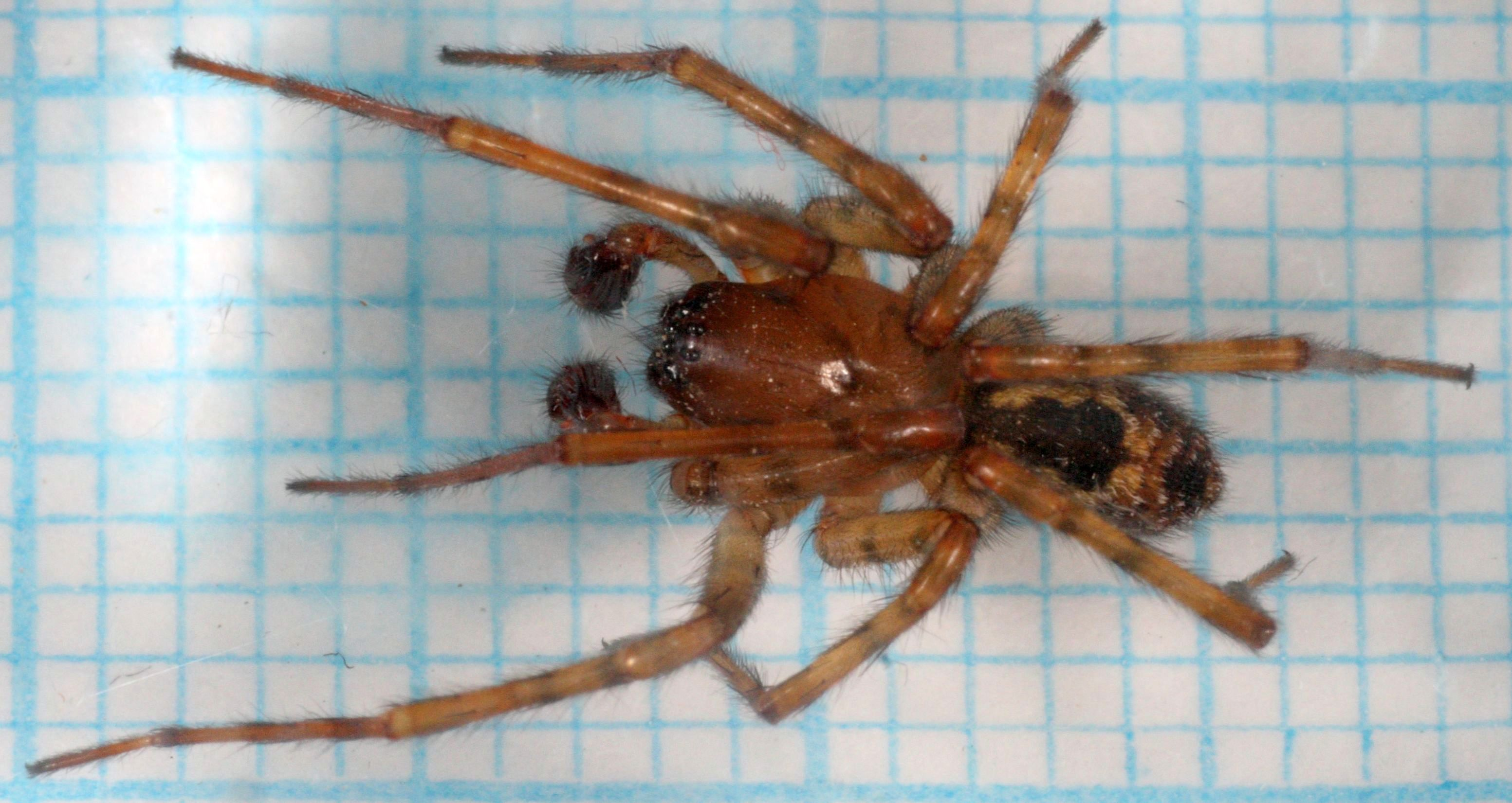 Male Amaurobius fenestralis